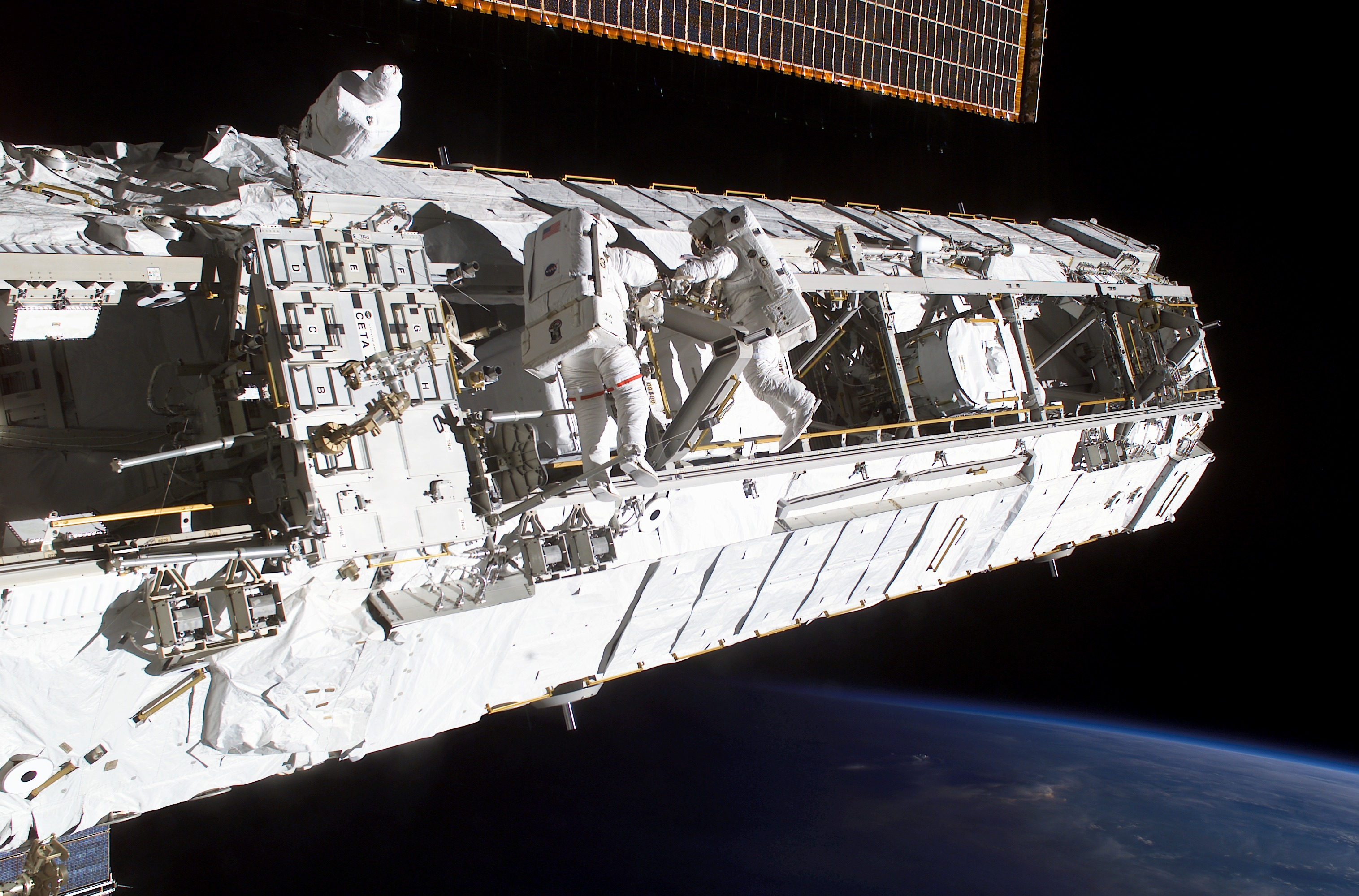 ISS P1 Truss structure (NASA) Astronauts Michael E. López-Alegría (left) and John B. Herrington, STS-113 mission specialists, work on the newly installed Port One (P1) truss on the International Space Station (ISS) during the mission's second scheduled session of extravehicular activity (EVA). The spacewalk lasted 6 hours, 10 minutes. note: A CETA astronaut worksite cart mounted on the Truss rails is visible to the left of Lopez-Alegria.